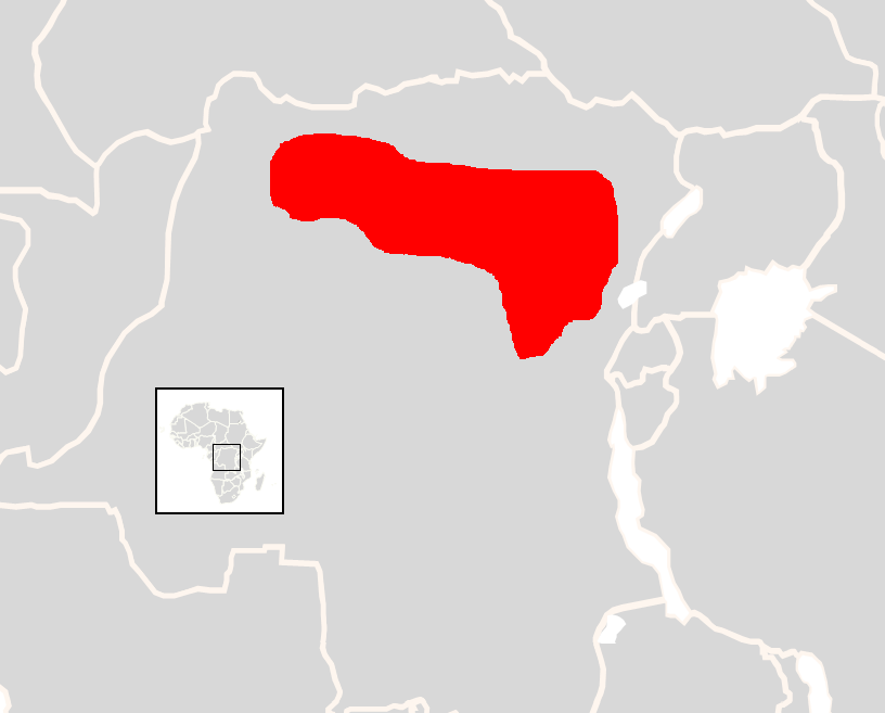 Okapi (Okapia johnstoni), range map, depending on the range map at IUCN red list